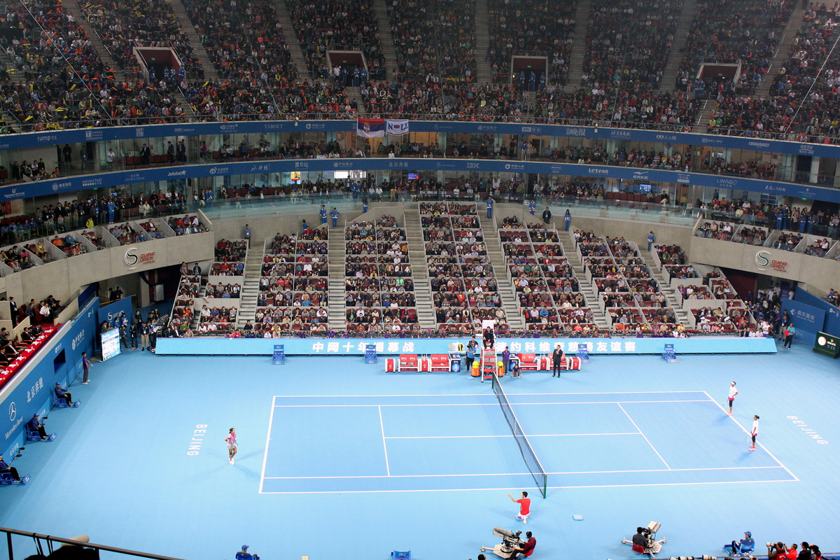 Li Na, 2013 China Open charity event